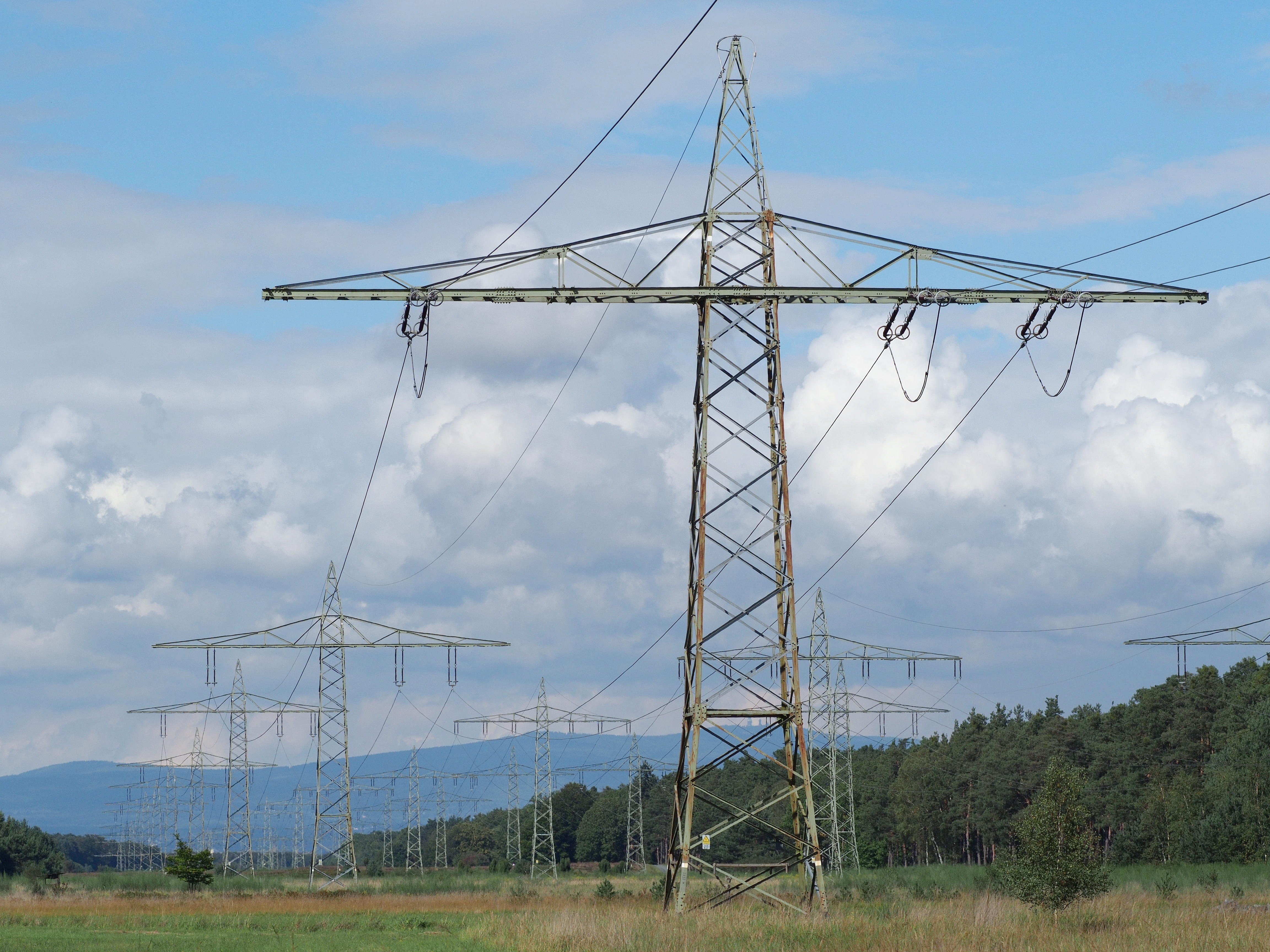 Three high-tension lines on low one-level pylons west of Frankfurt airport